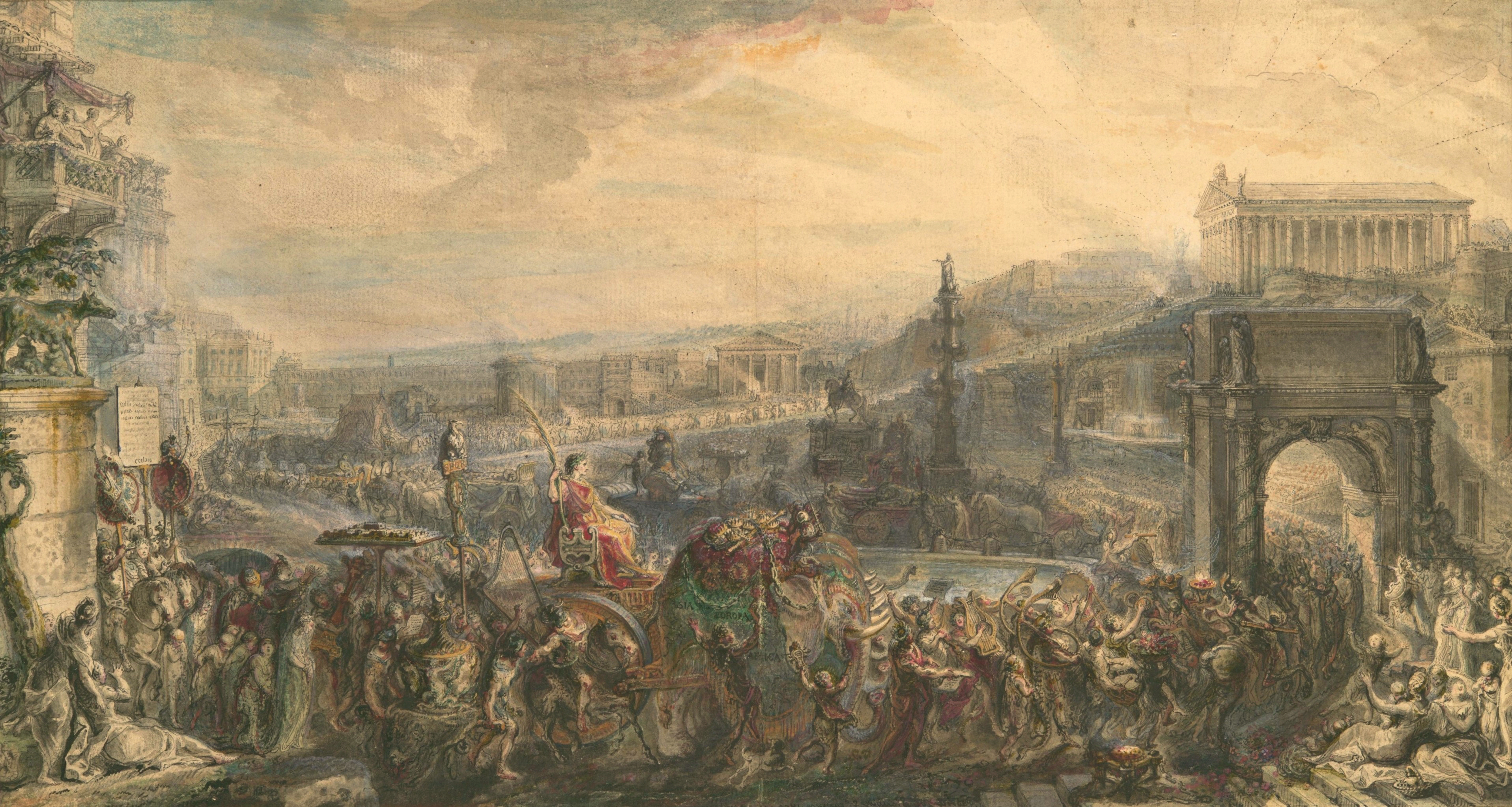 The Triumph of Pompey